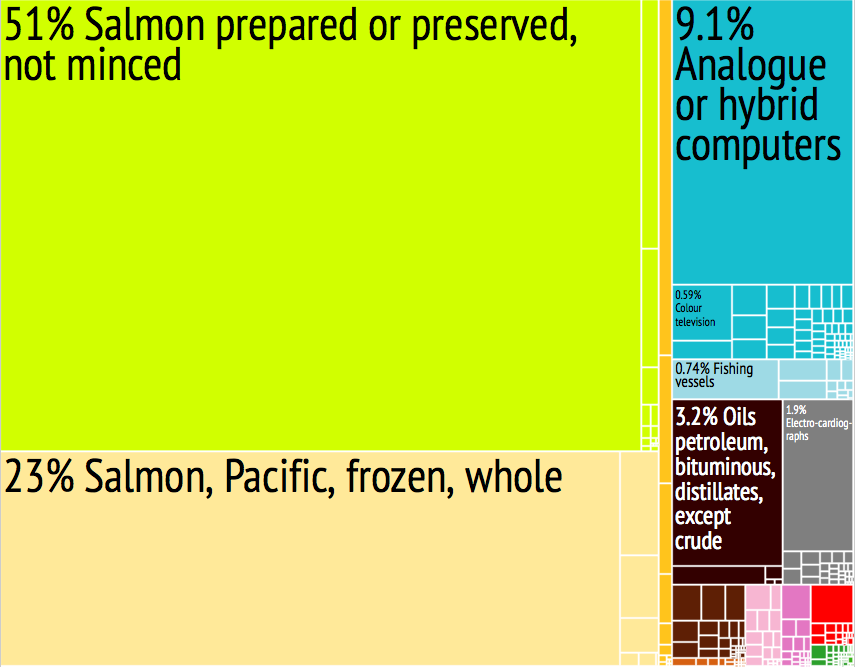 Seychelles Export Treemap from MIT Harvard Economic Complexity Observatory